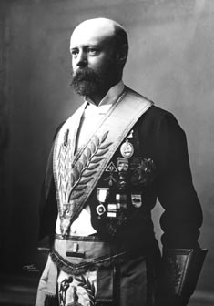 William Onslow, 4th Earl of Onslow (1853-1911)